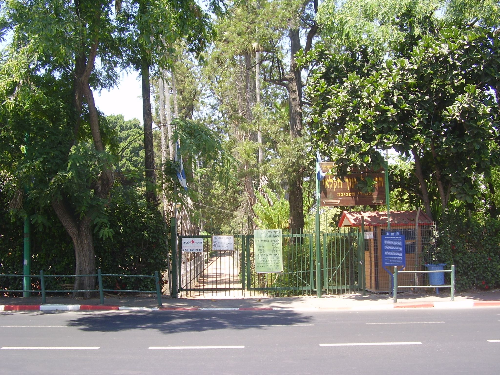 agriculture farm school in petah tikva, israel החווה לחינוך חקלאי בפתח תקווה, לשעבר בית הספר המחוזי ע"ש רוזה כהן